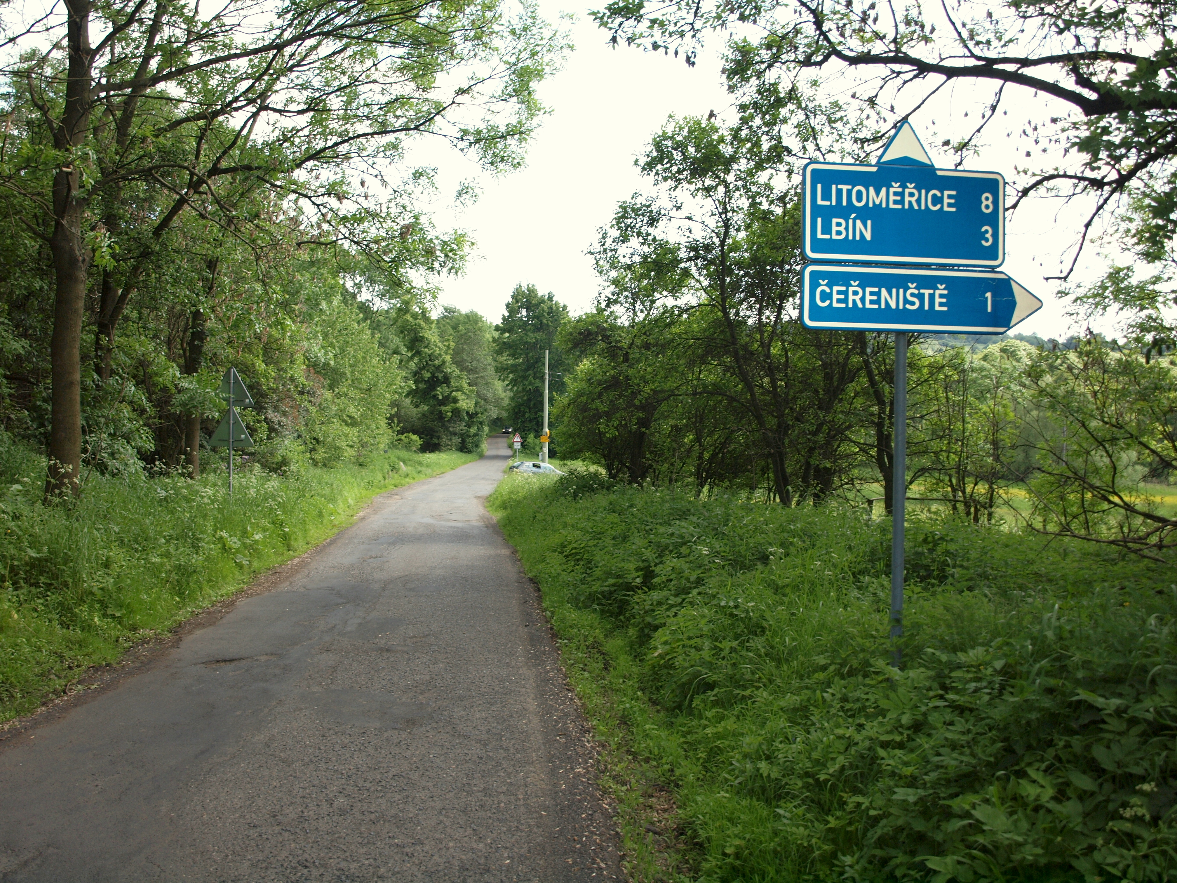 Babiny I.